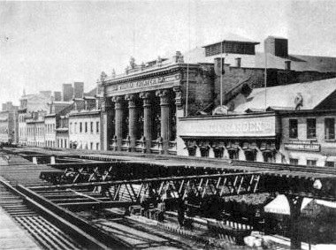 Thalia Theater, formerly Bowery Theatre, 46–48 Bowery, New York, N.Y., seen from an elevated train station